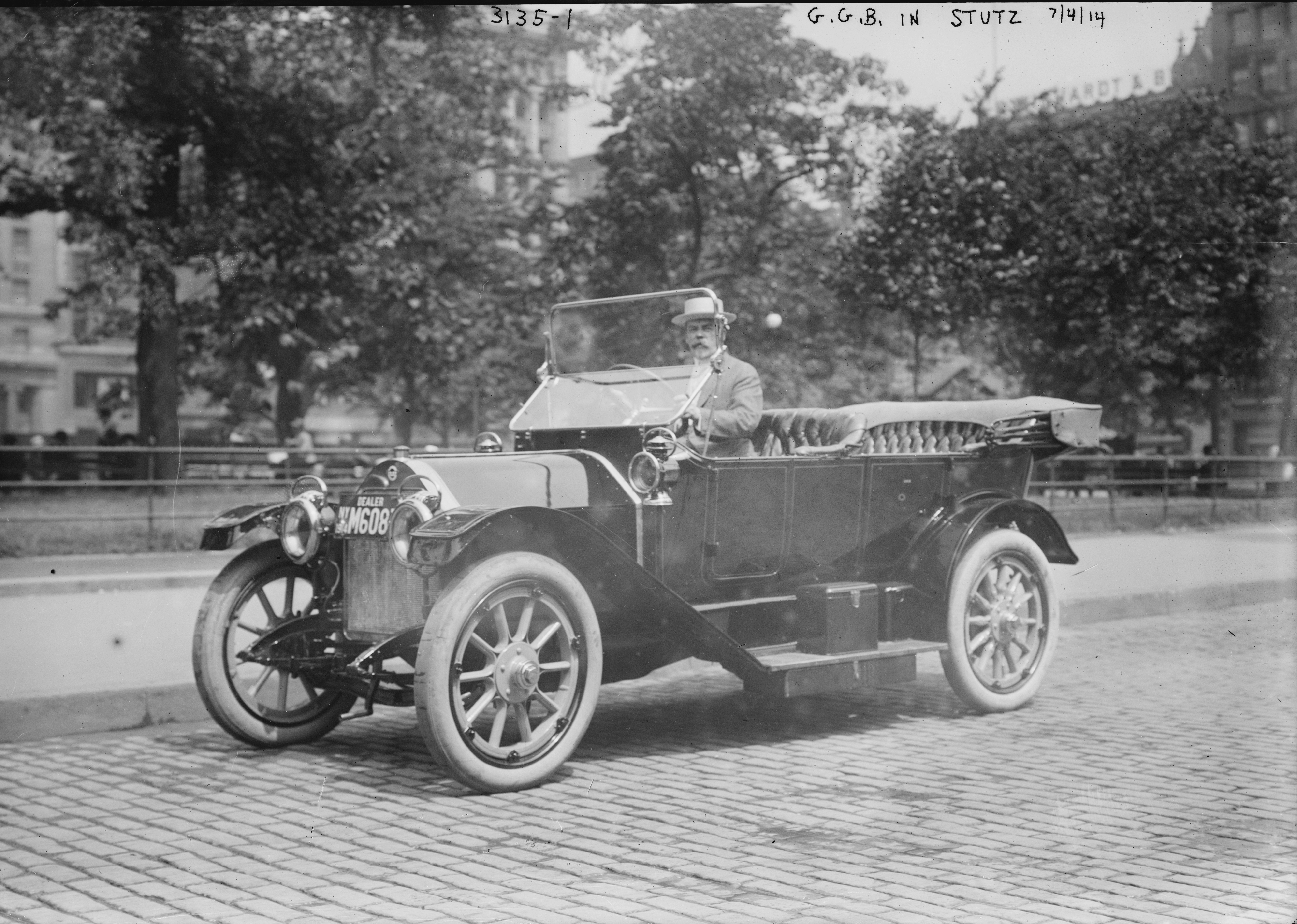 " G.G.B. in Stutz". Shows man, presumably George Grantham Bain, wearing straw boater, at wheel of Stutz automobile.